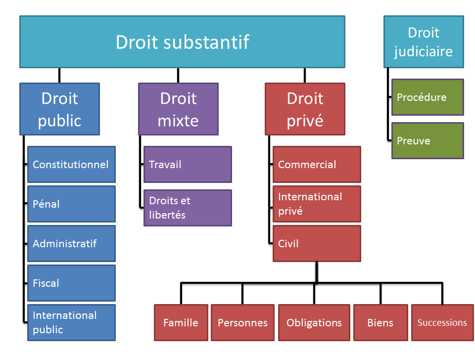 Schema showing the differents types of law in Québec